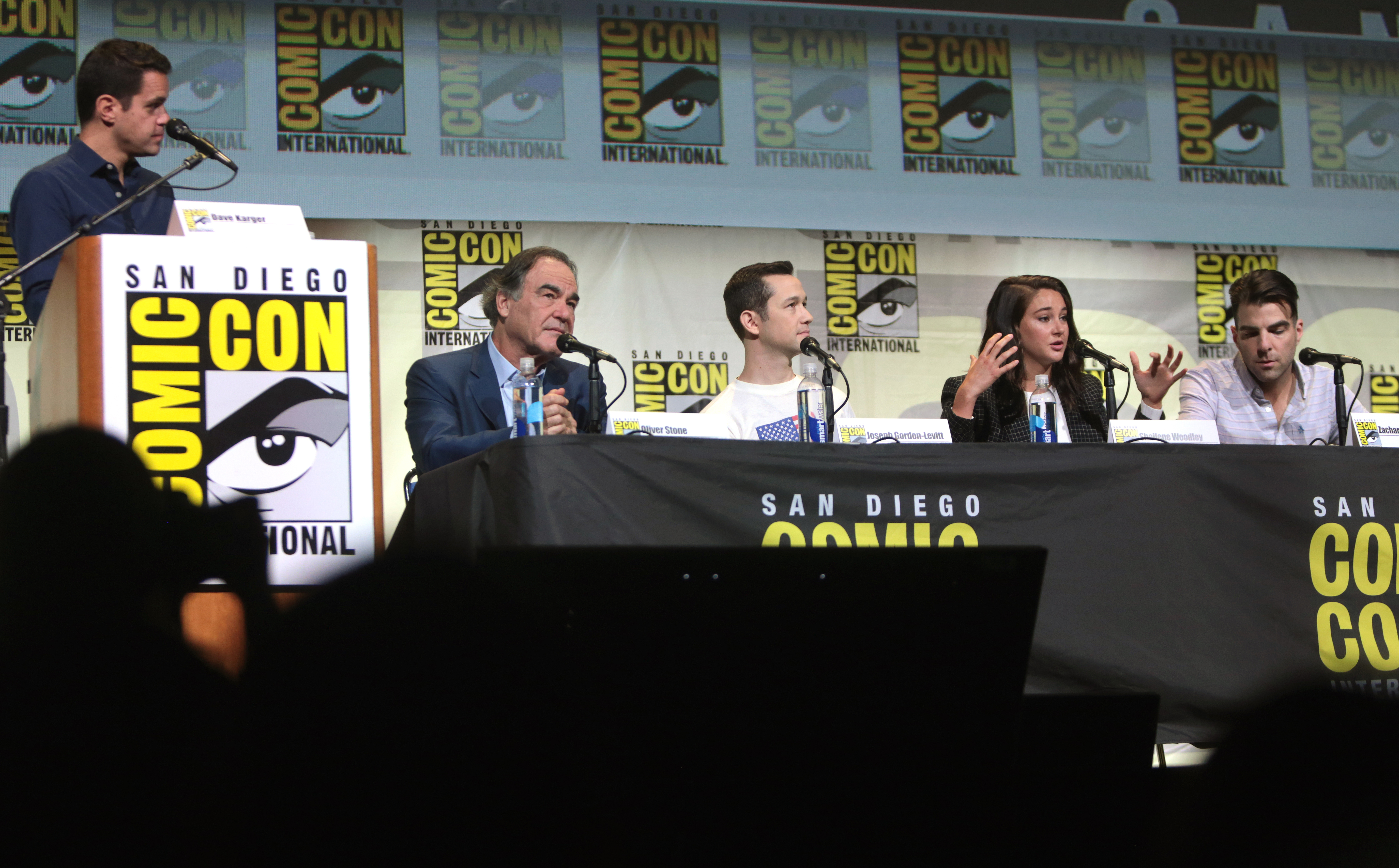 The cast of Snowden speaking at the 2016 San Diego Comic-Con International in San Diego, California.